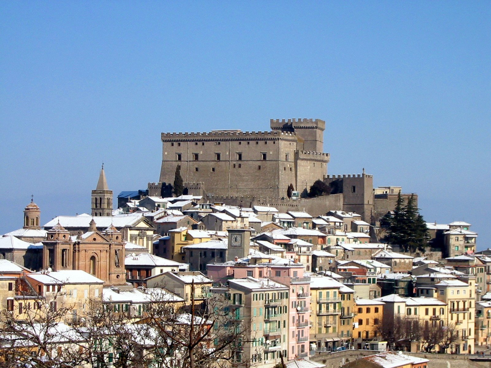 View of Soriano nel Cimino, Italy. Snow can be seen on the rooftops.